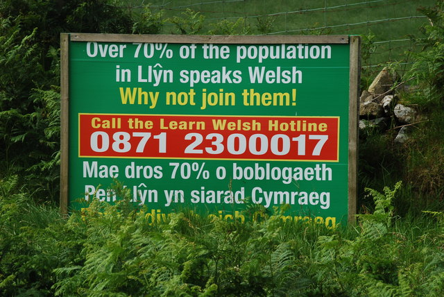 Defnyddiwch eich Cymraeg - Use your Welsh. Detail of 488575